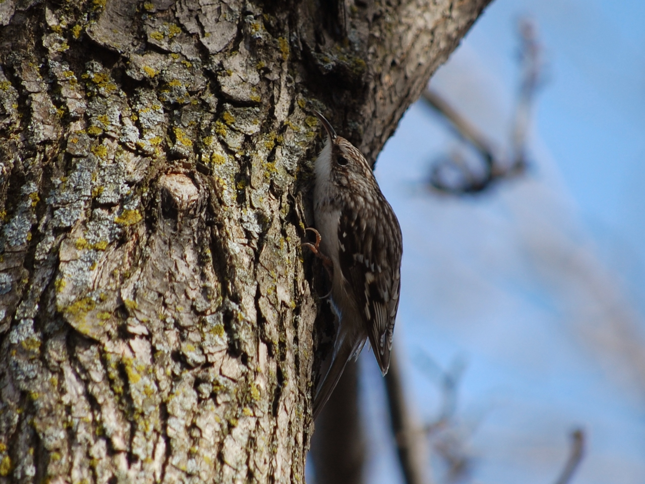 A Brown Creeper (also known as the American Tree Creeper) in Powderhorn Park, Minneapolis, Minnesota.